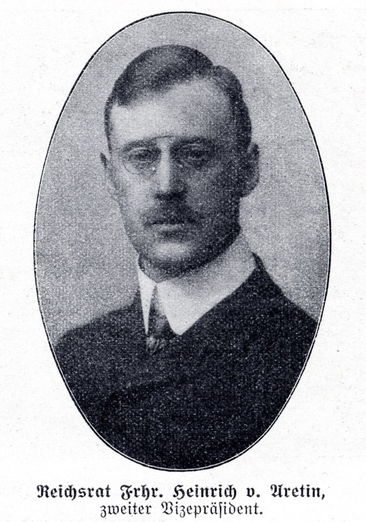 Photo of "Reichsrat Frhr. Heinrich v. Aretin", member of the german parliament. The photo stems from the catholic german magazine "Deutscher Hausschatz".